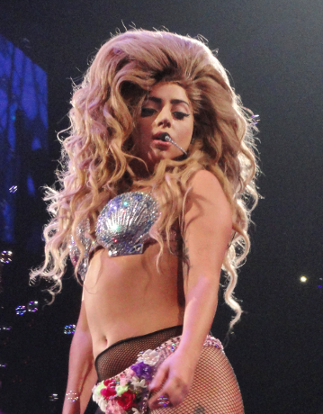 Lady Gaga performing "Venus" at the ArtRave in Seattle